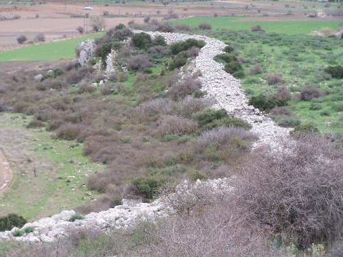 The northwest part of the fortification at Gla seen from the "palace", part of the Kopais plain visible in background